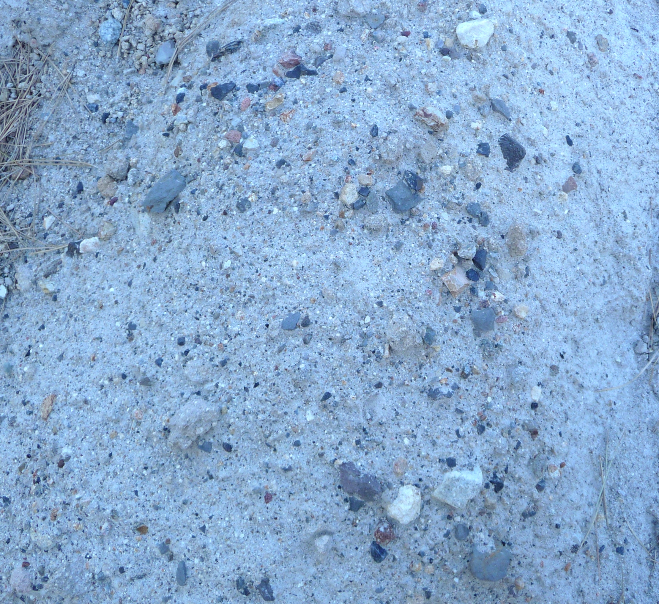 Inyo Craters - Deer Mountain - tephra